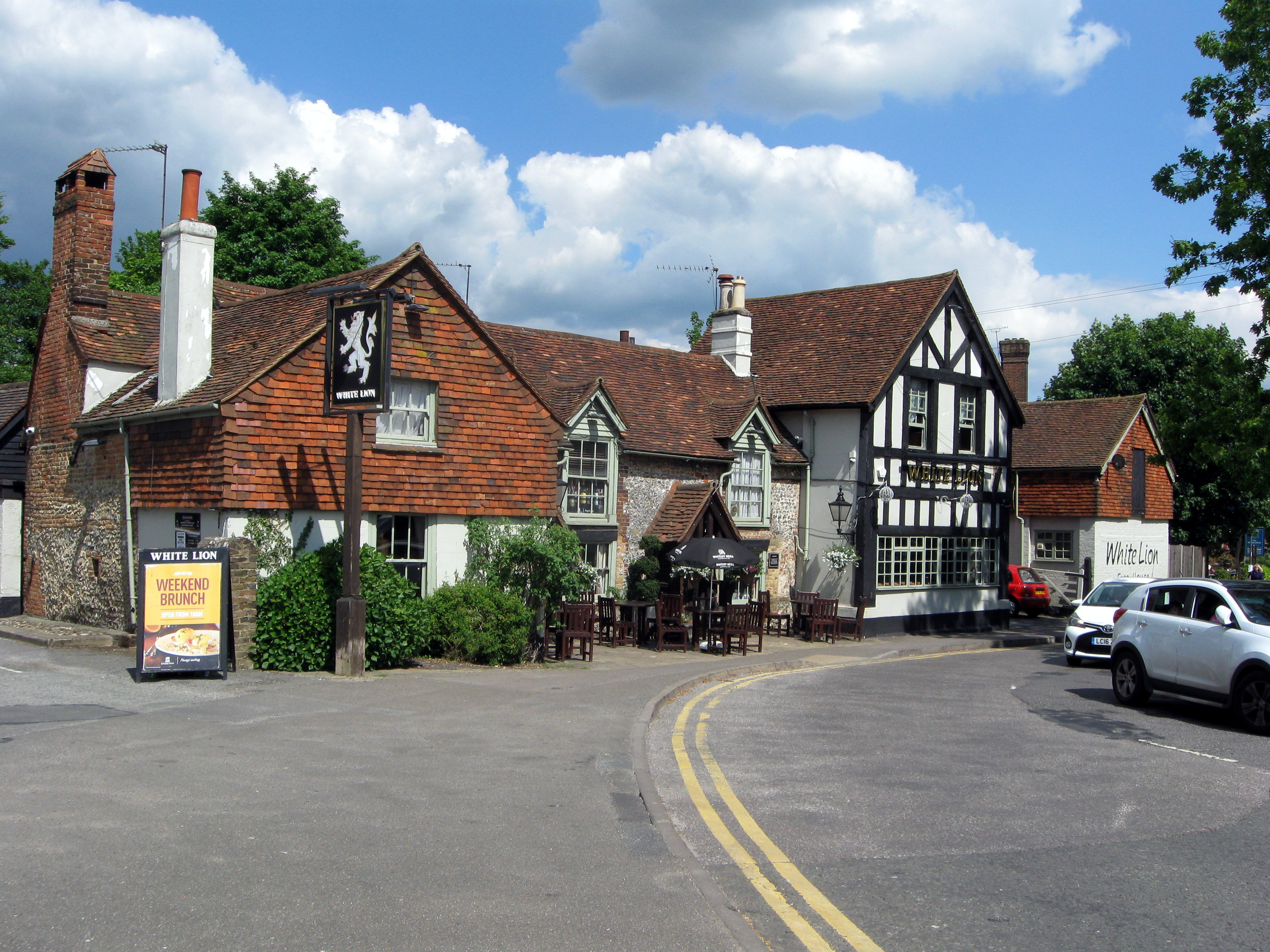 Public house, The White Lion in Warlingham, Surrey, UK